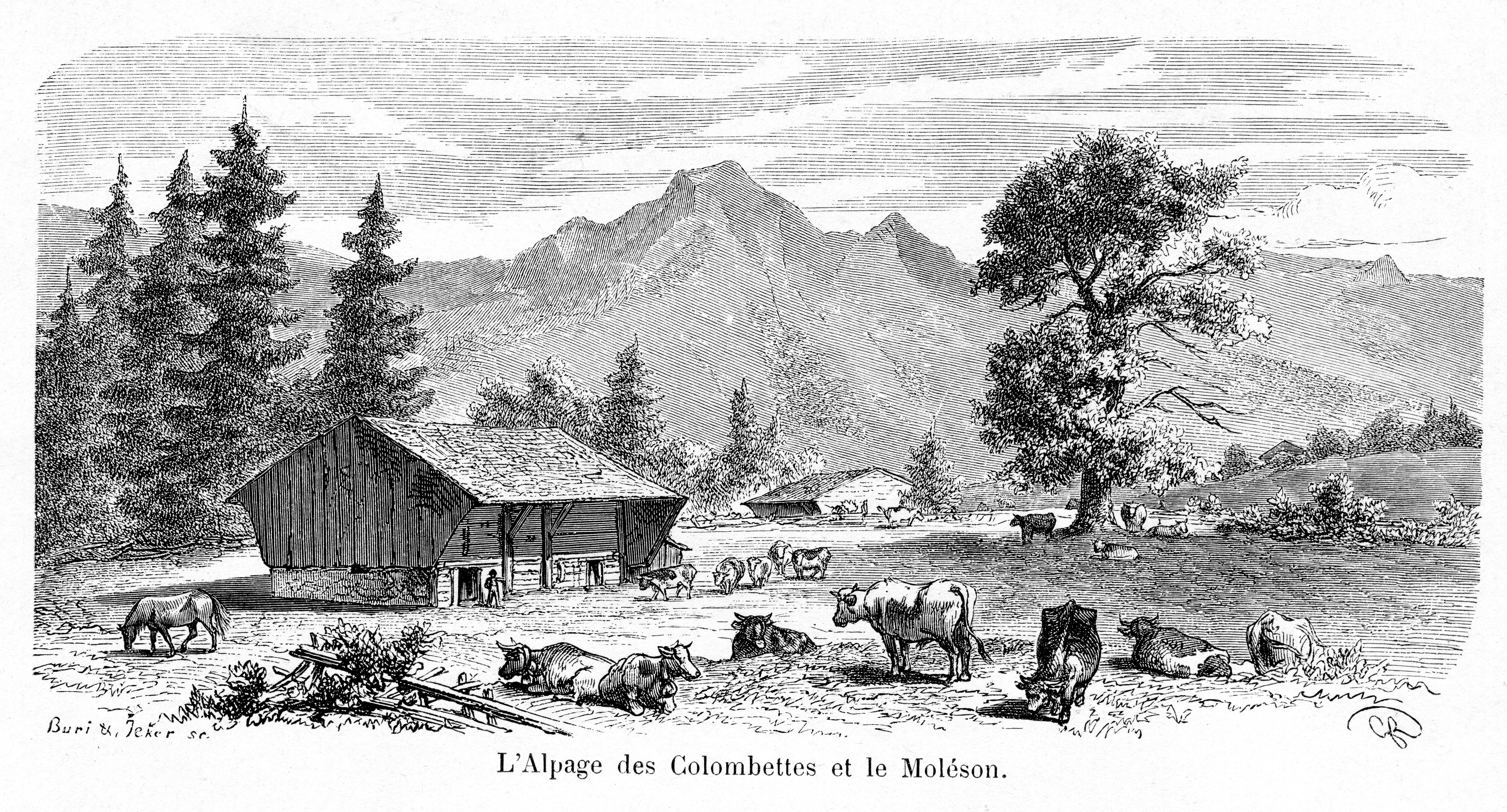 Gustave Roux 05 L'Alpage des Colombettes et le Moléson